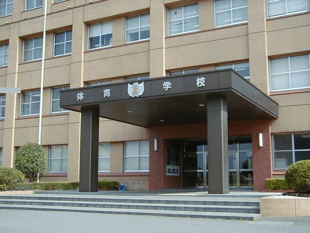 physical traning school,JGSDF Camp Asaka